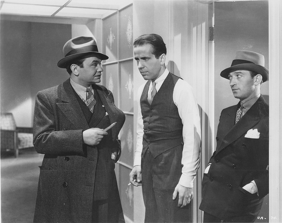 Edward G. Robinson, Humphrey Bogart and George E. Stone in the American gangster film Bullets or Ballots (1936). See also film still. No copyright notice.